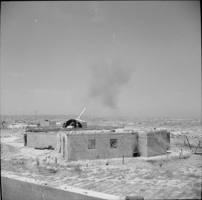 The British Army on Malta 1942 A 4.5-inch anti-aircraft gun opens fire during an air raid on Malta, 10 June 1942.